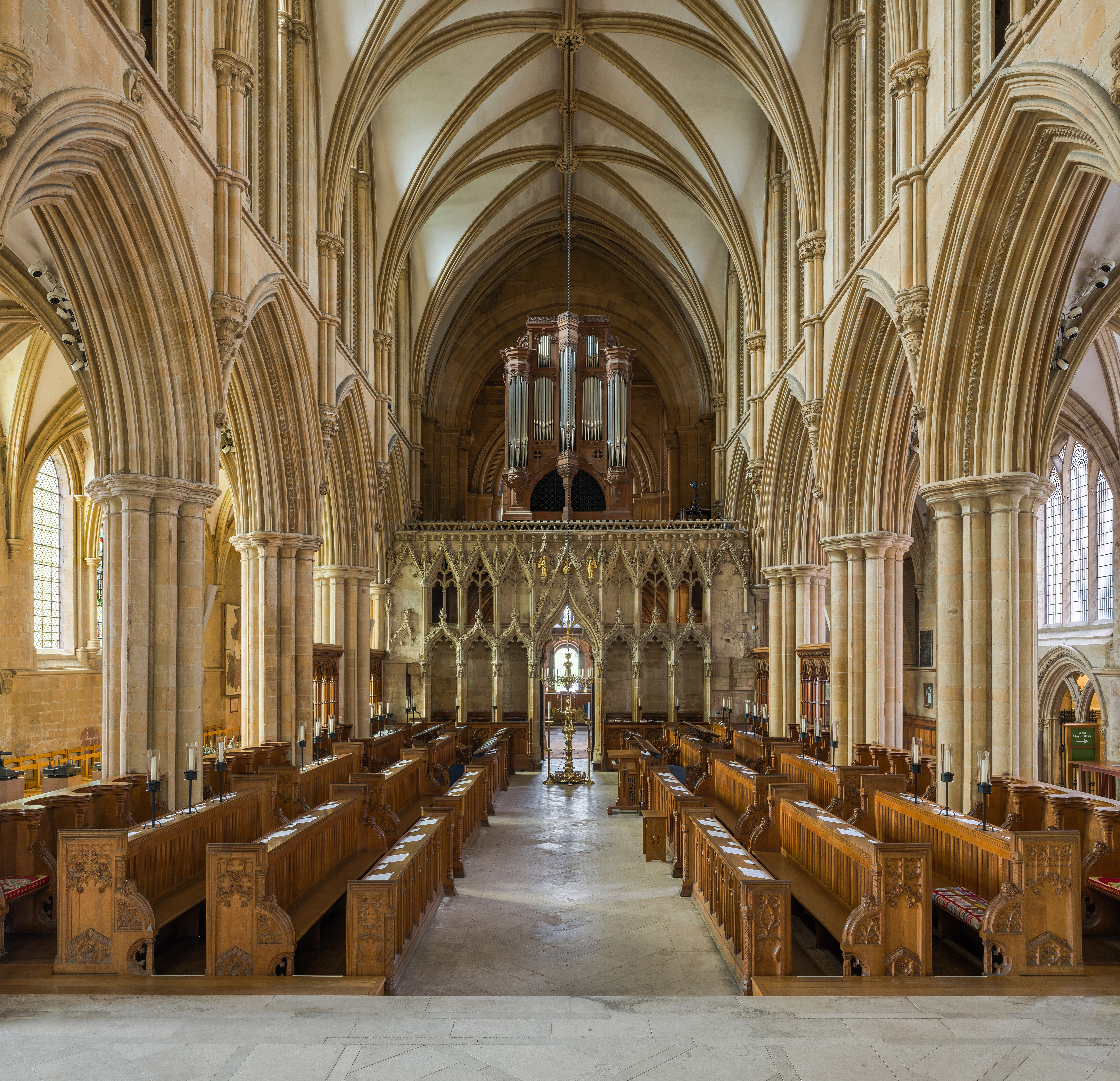 The organ and rood screen of Southwell Minster viewed from the sanctuary, in Nottinghamshire, England.